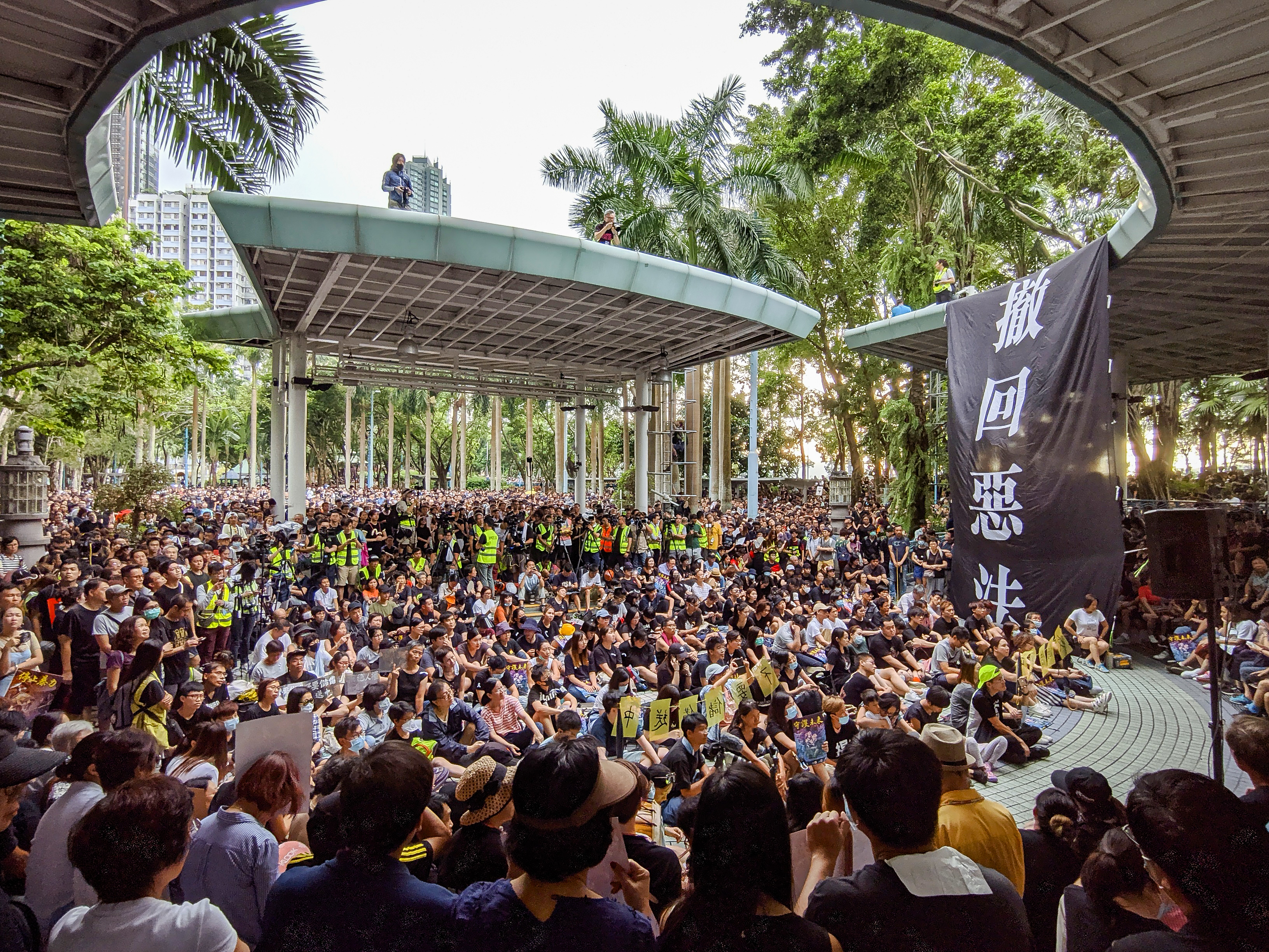 Protests in Hong Kong on 4 August, for the extradition bill and police excessive force.